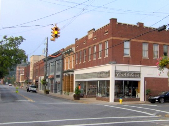 Court Avenue in Sevierville, Tennessee. Court Avenue was part of Sevierville's "new" commercial district, developed in the vicinity of the Sevier County Courthouse in 1901 after the old district burned.